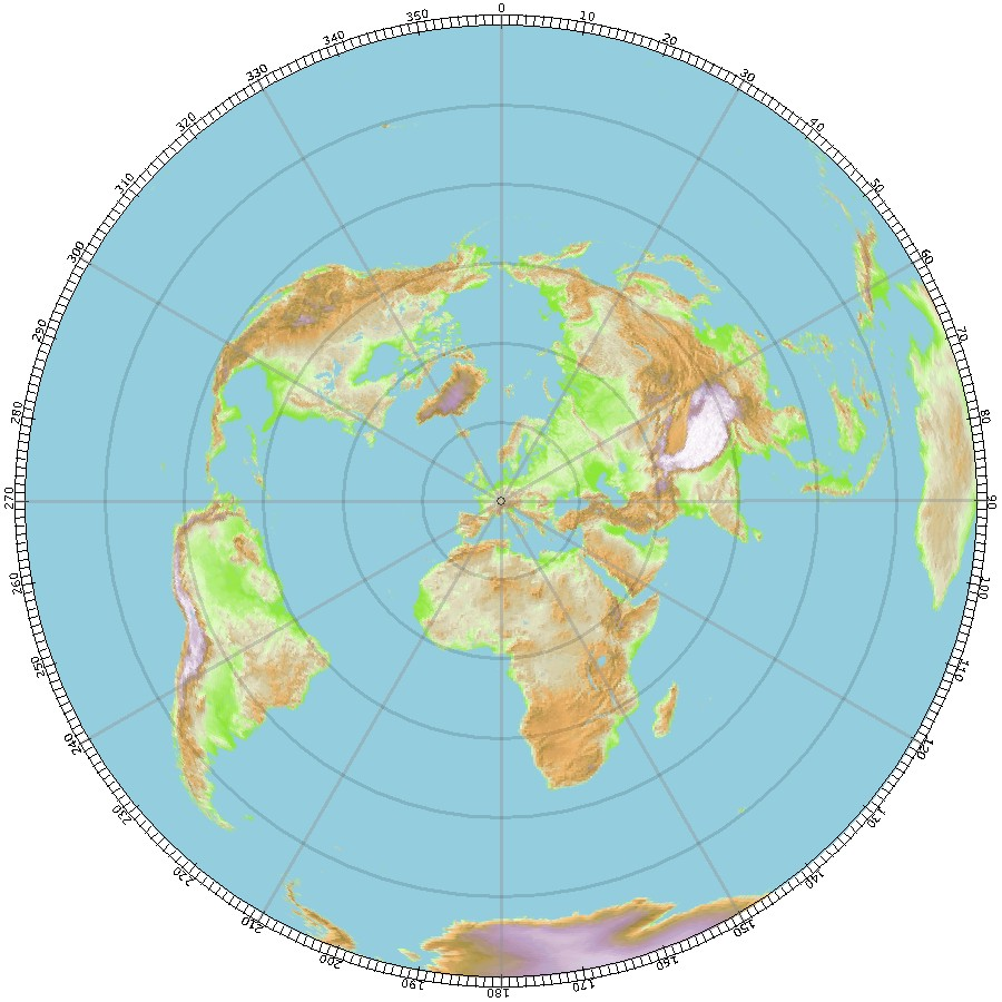 great circle map for Switzerland, with range circles every 2500 km